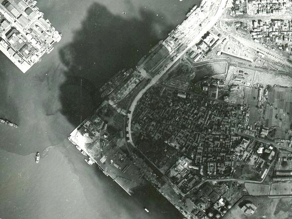 Reigaryo